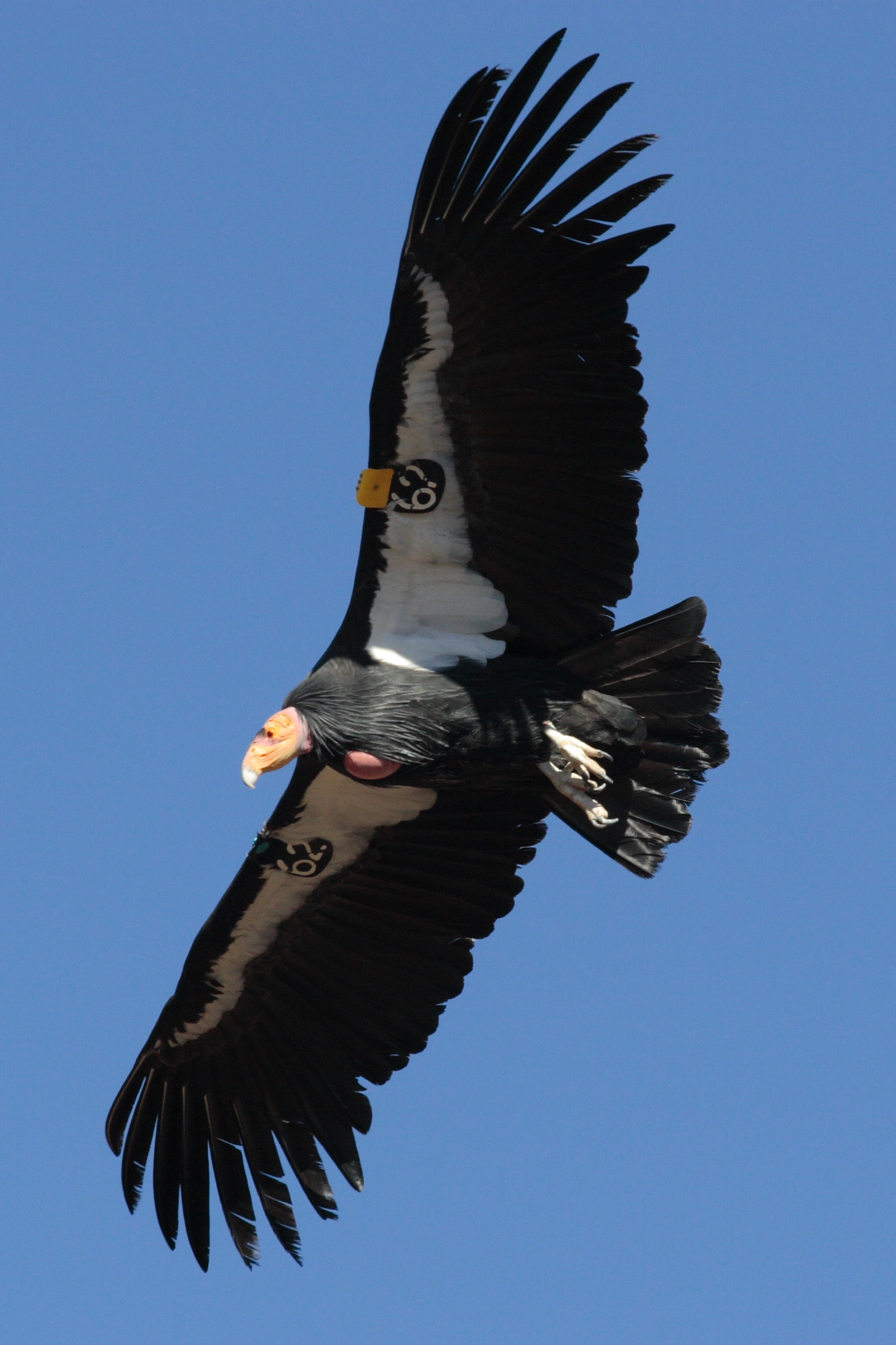 A Californian Condor in flight, photographed in Zion National Park, Utah